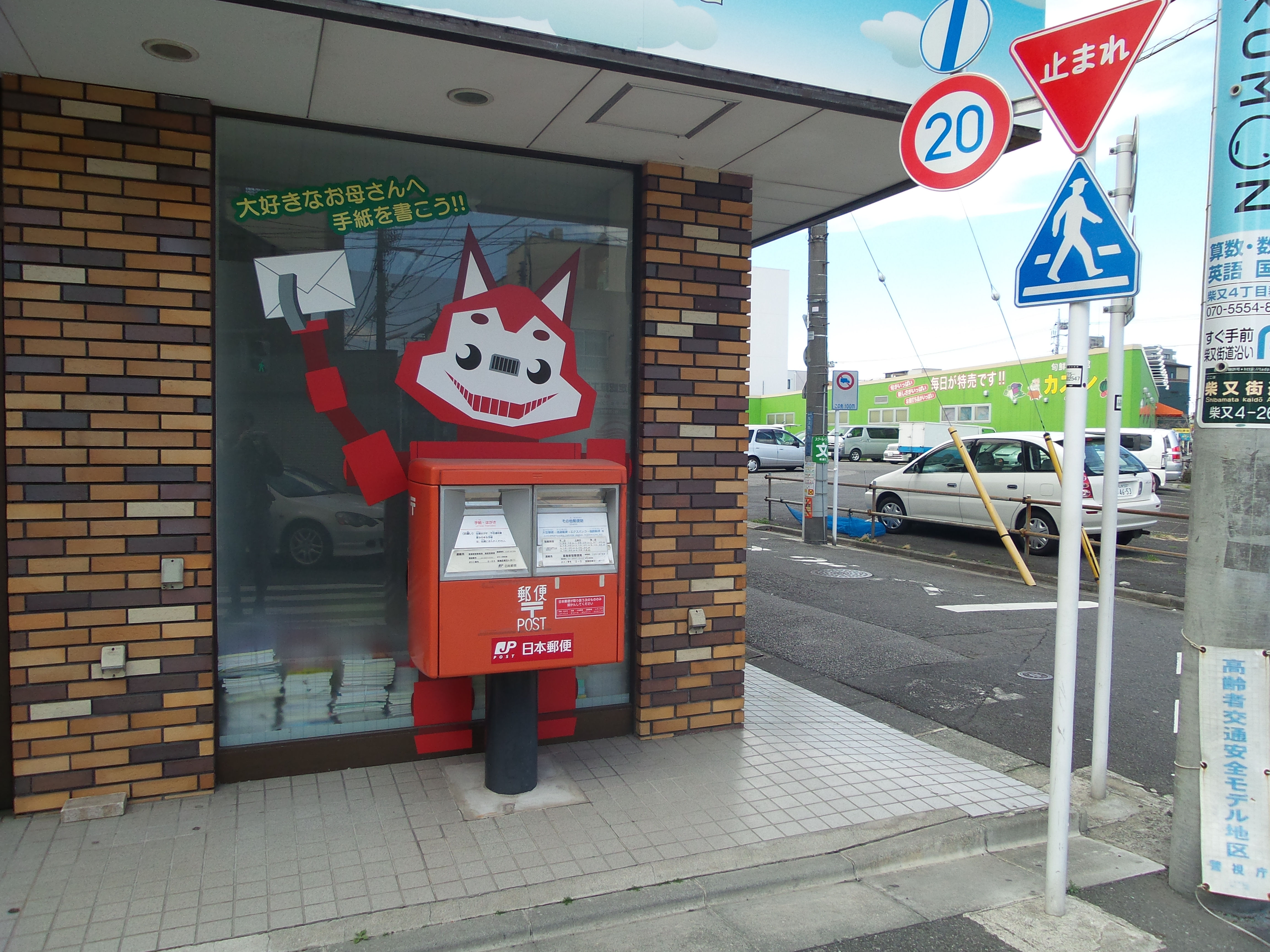 uploaded with Flickr Uploader for Android